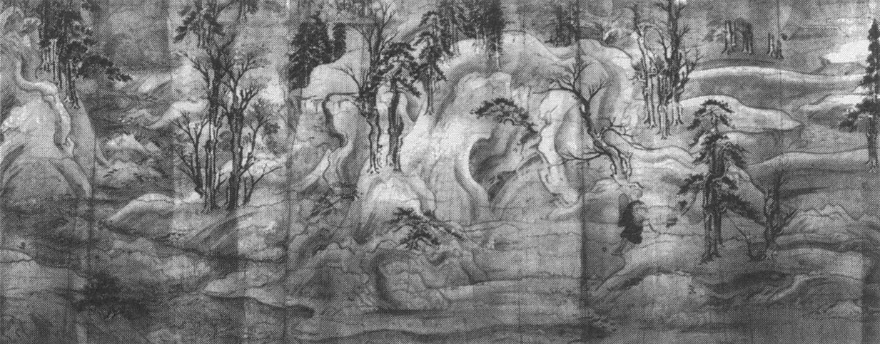 Saigyo Monogatari Emaki - Tsunetaka - Saigyo at mount Yoshino. Black and white scan.